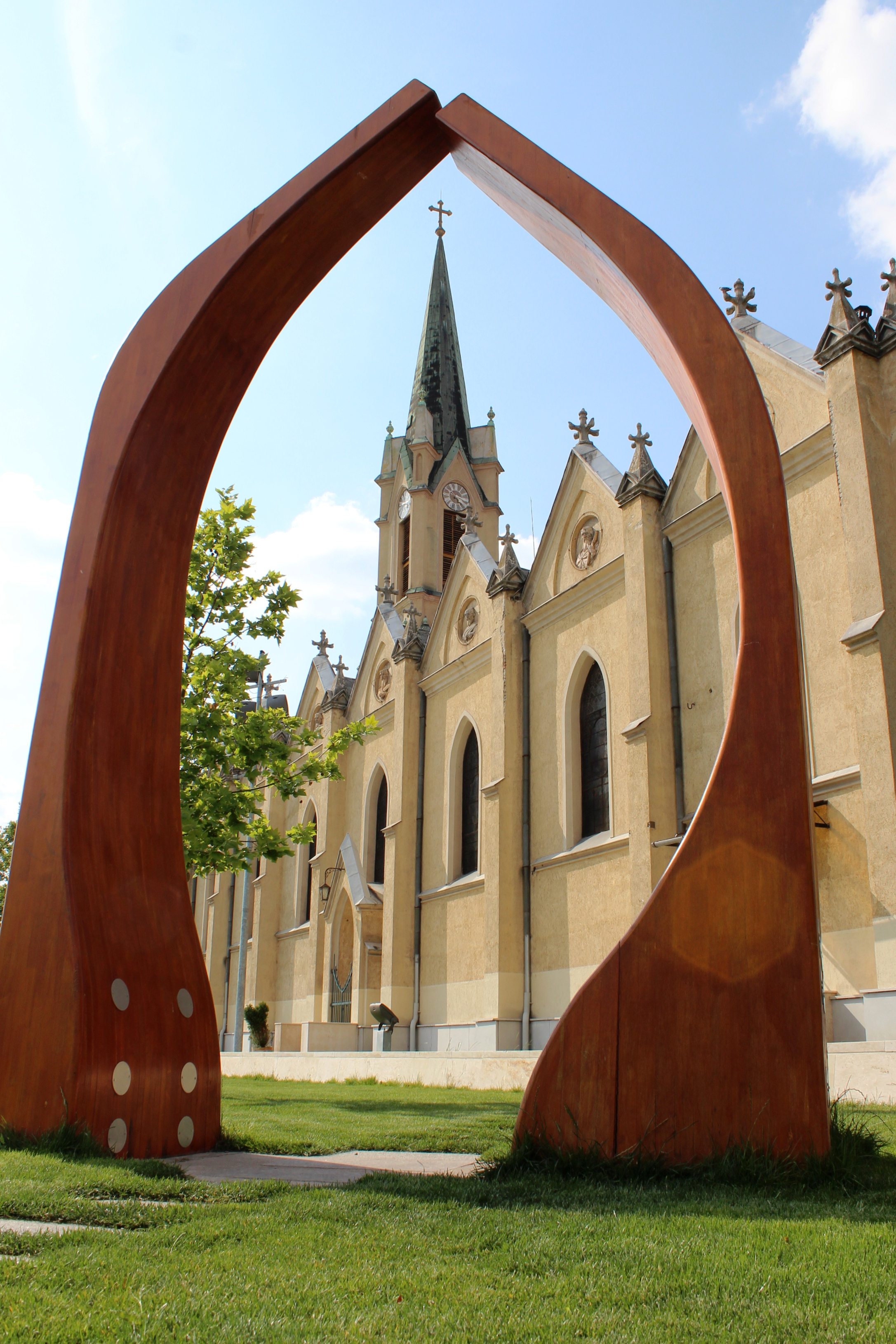 Queen of Heavens Church, Újpest